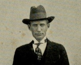 Wilbur Wade Card in the 1922 Trinity Yearbook, The Chanticleer